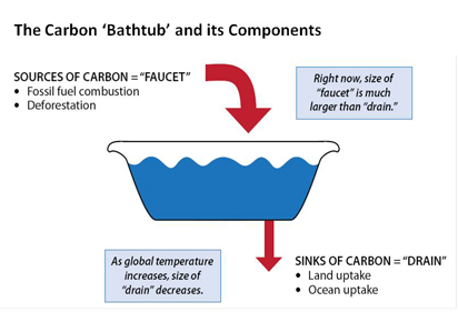 This image shows an analogy between filling a bathtub with water and the increasing concentration of carbon dioxide in Earth's atmosphere. From the public-domain source - US Environmental Protection Agency (US EPA, 2012): "If the amount of water flowing into a bathtub is greater than the amount of water leaving through the drain, the water level will rise. Carbon dioxide (CO2) emissions are like the flow of water into the world's carbon bathtub. "Sources" of CO2 emissions such as fossil fuel burning, cement manufacture, and land use are like the bathtub's faucet. "Sinks" of CO2 in the ocean and on land (such as plants) that take up CO2 are like the drain. Today, human activities have turned up the flow from the CO2 "faucet", which is much larger than the "drain" can cope with, and the level of CO2 in the atmosphere (like the level of water in a bathtub) is rising."